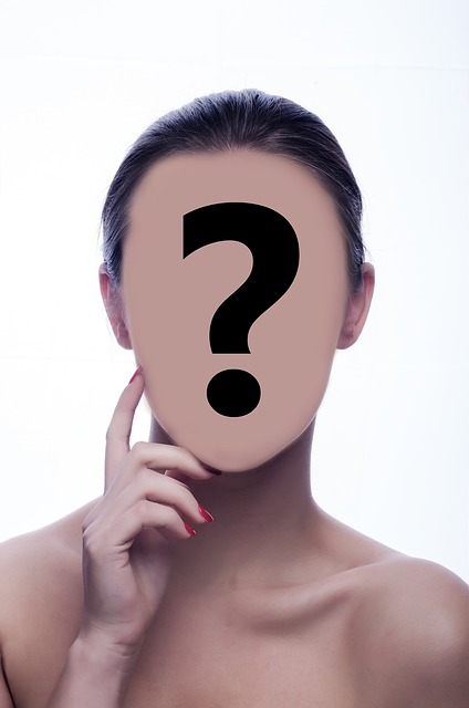 Emotion recognition can be difficult for some people suffering an array of disorders.